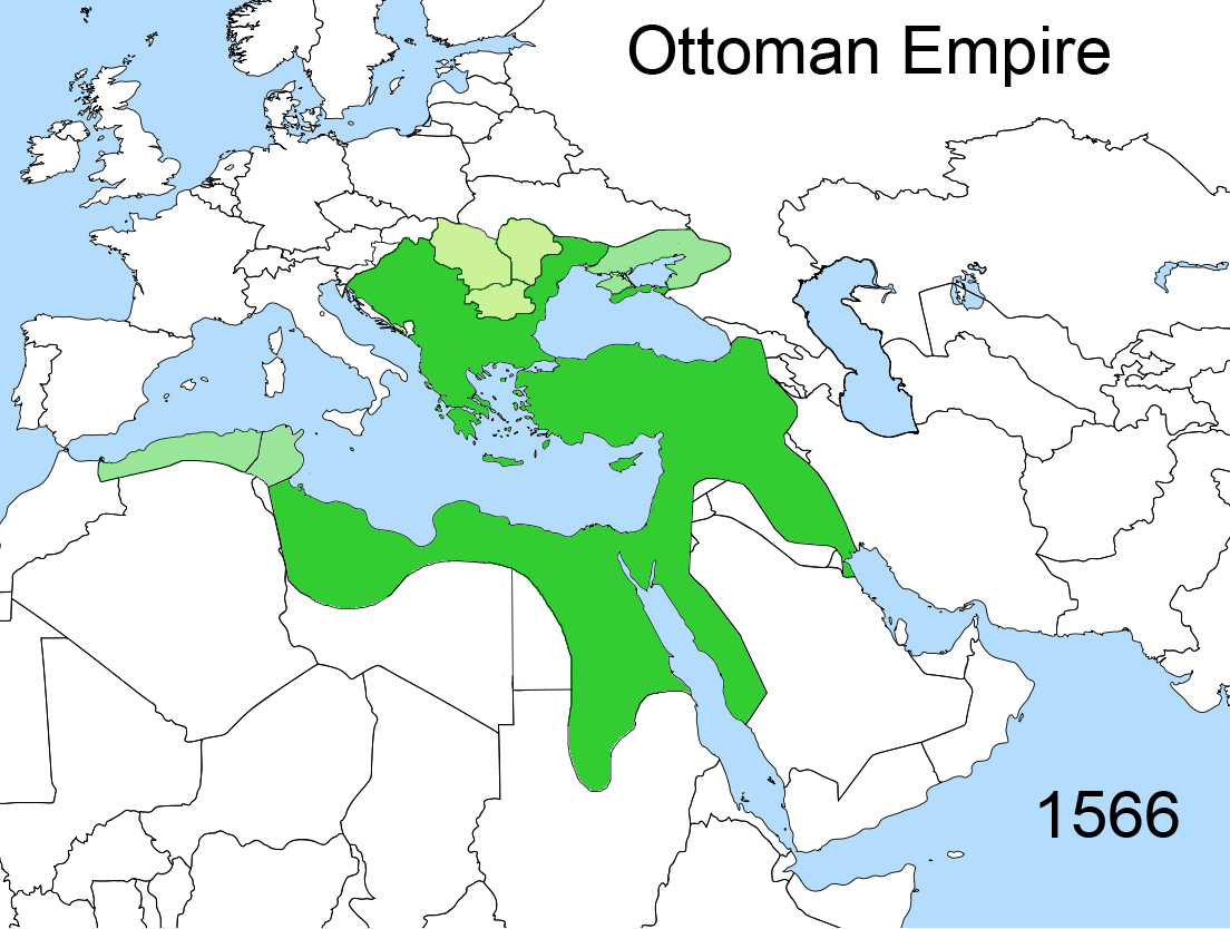 Territorial changes of the Ottoman Empire